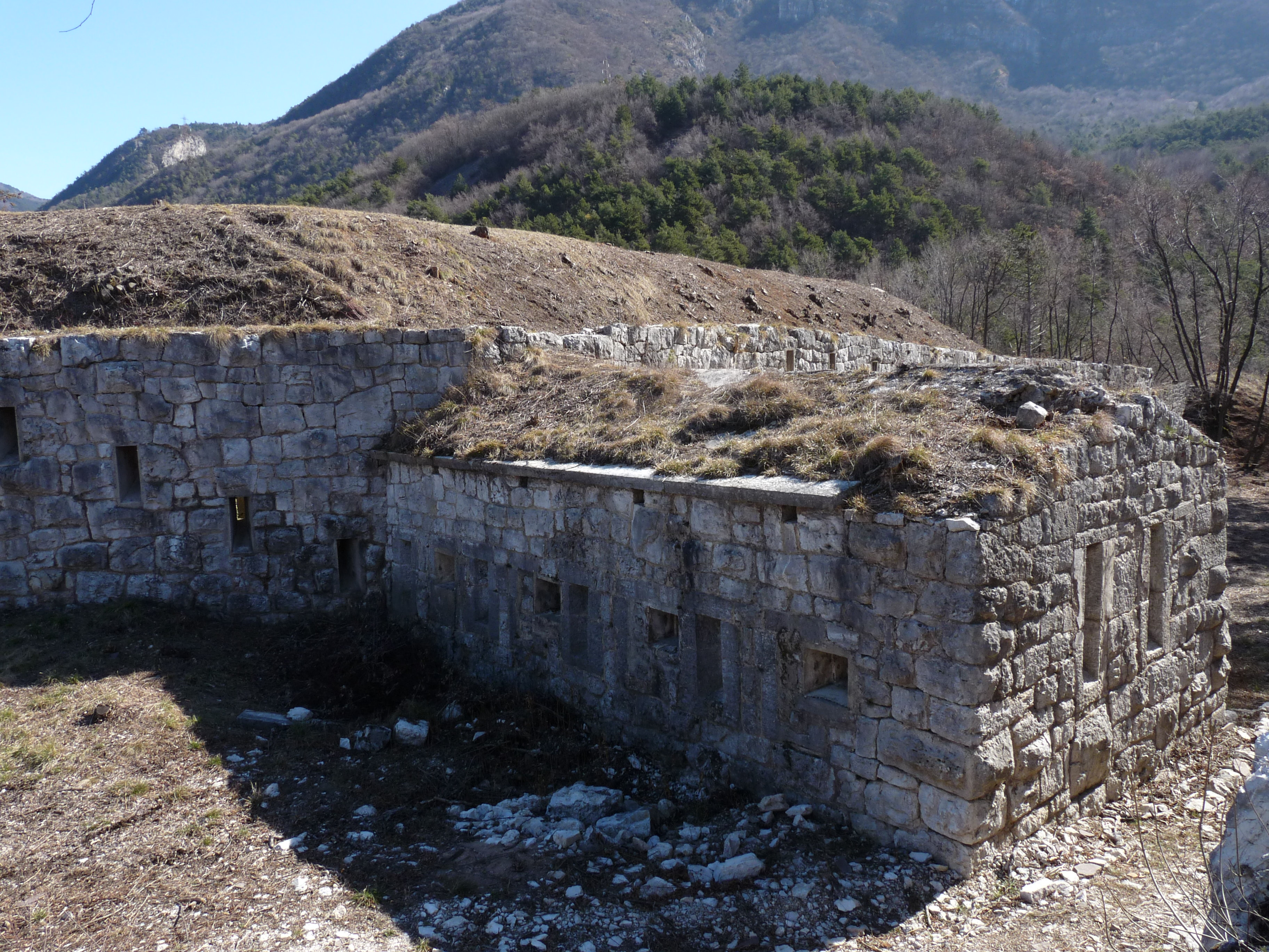 Trento (Italy): the Obere Batterie Mattarello, in the village of Mattarello